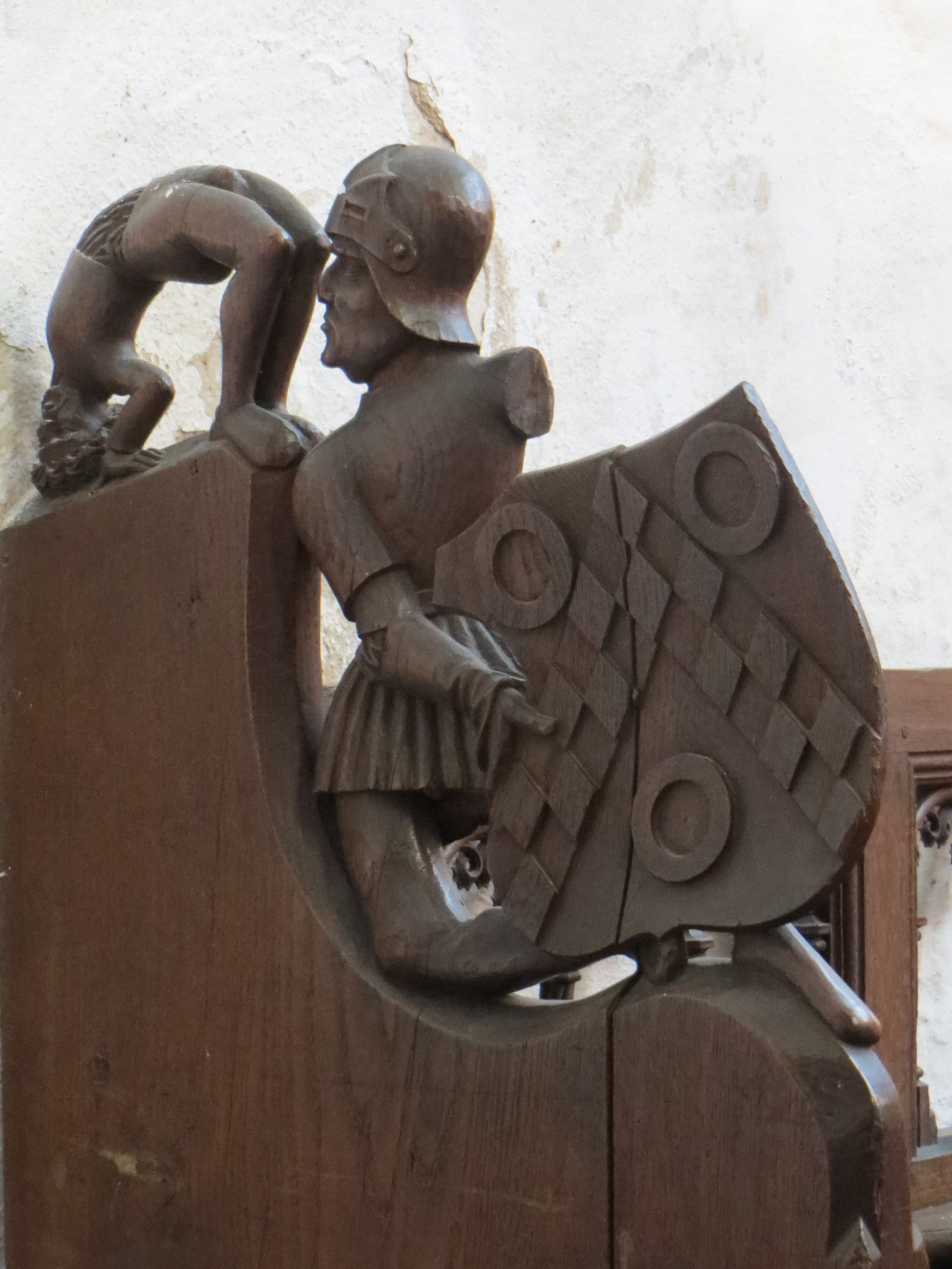 Lübeck, Marienkirche, Marientidenkapelle: CoA Godart Wigerinck